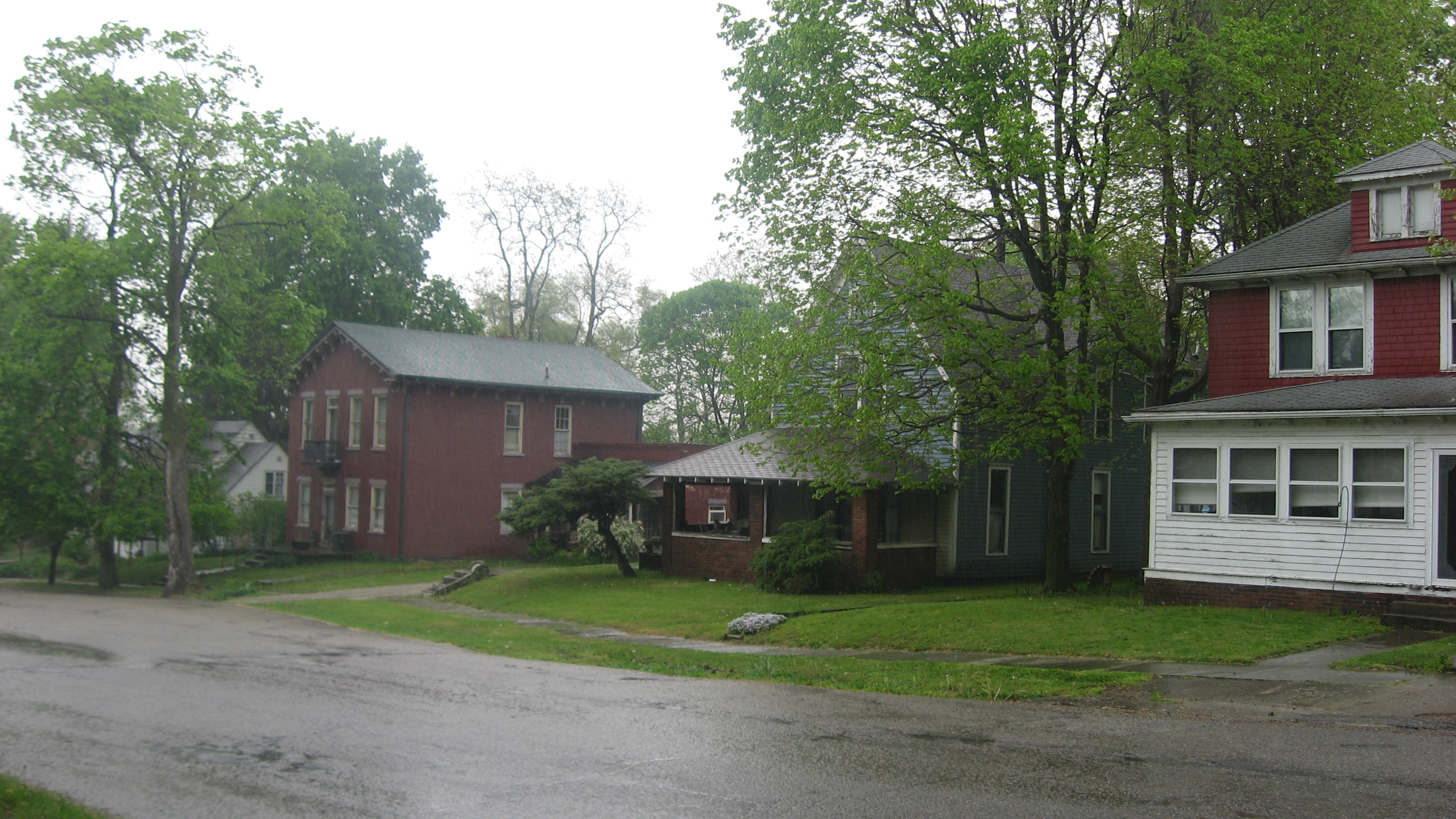 Houses on the northern side of the 400 block of E. Main Street in Attica, Indiana, United States. This block is part of the Attica Main Street Historic District, a historic district that is listed on the National Register of Historic Places.